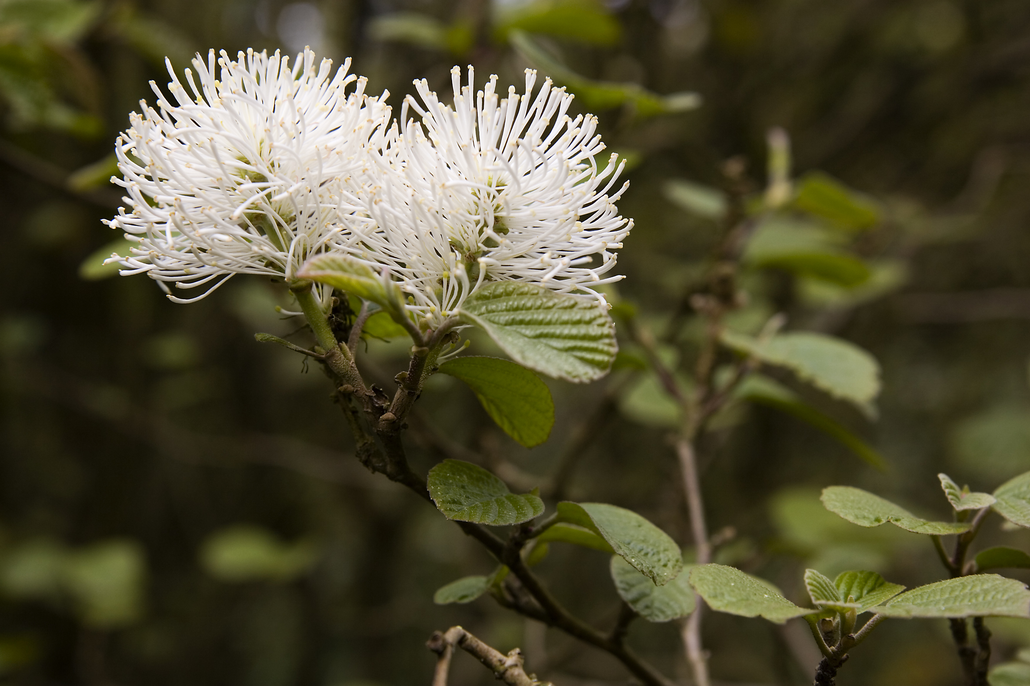 Flowers of (Witch alder). Taken at Taken at Westonbirt Arboretum, Gloucestershire, UK. Tree id 34.0034